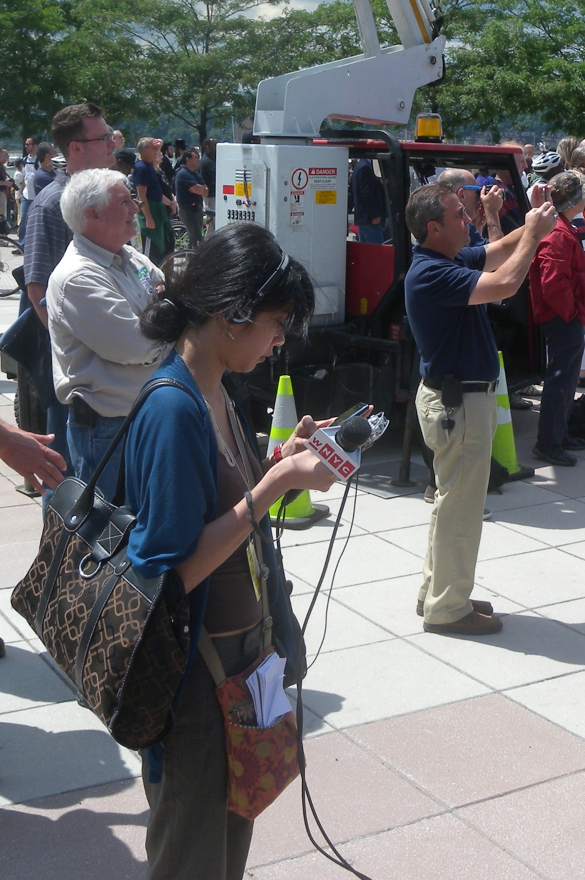 Looking northwest on Pier 84, at radio reporter for WNYC covering arrival of the Space Shuttle Enterprise in New York City.